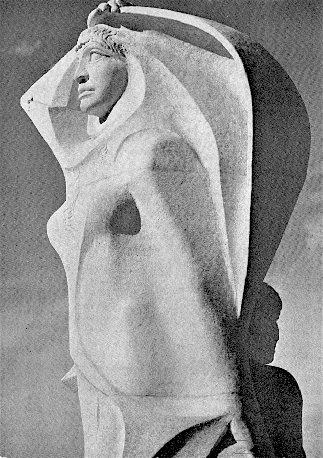 Mother and Child, statue by Khaled al-Rahal, Baghdad, 1961